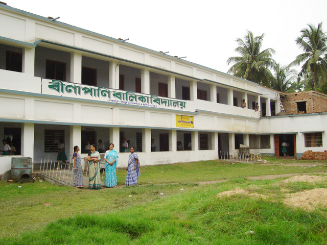 sch